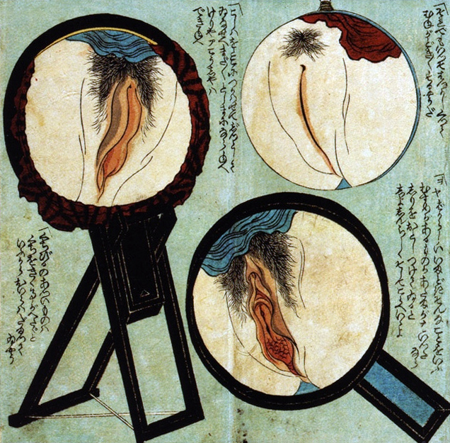 Female self-examination; each vulva and mirror are unique